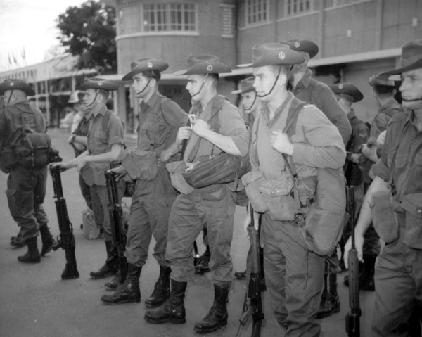 Troops of Royal Australian Regiment After Arrival at Tan Son Nhut Airport.